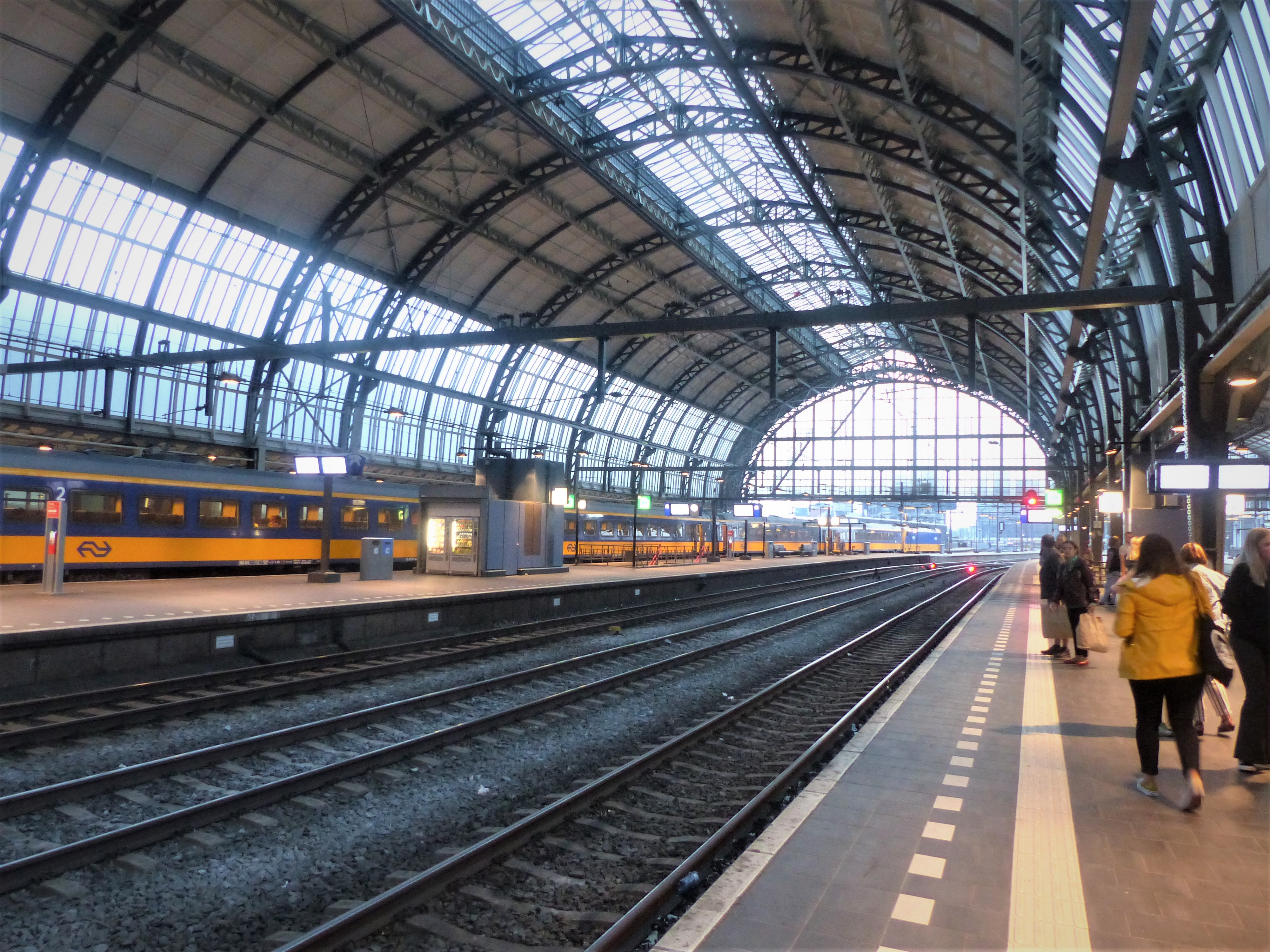 Amsterdam Centraal on the 9th of August, 2018.